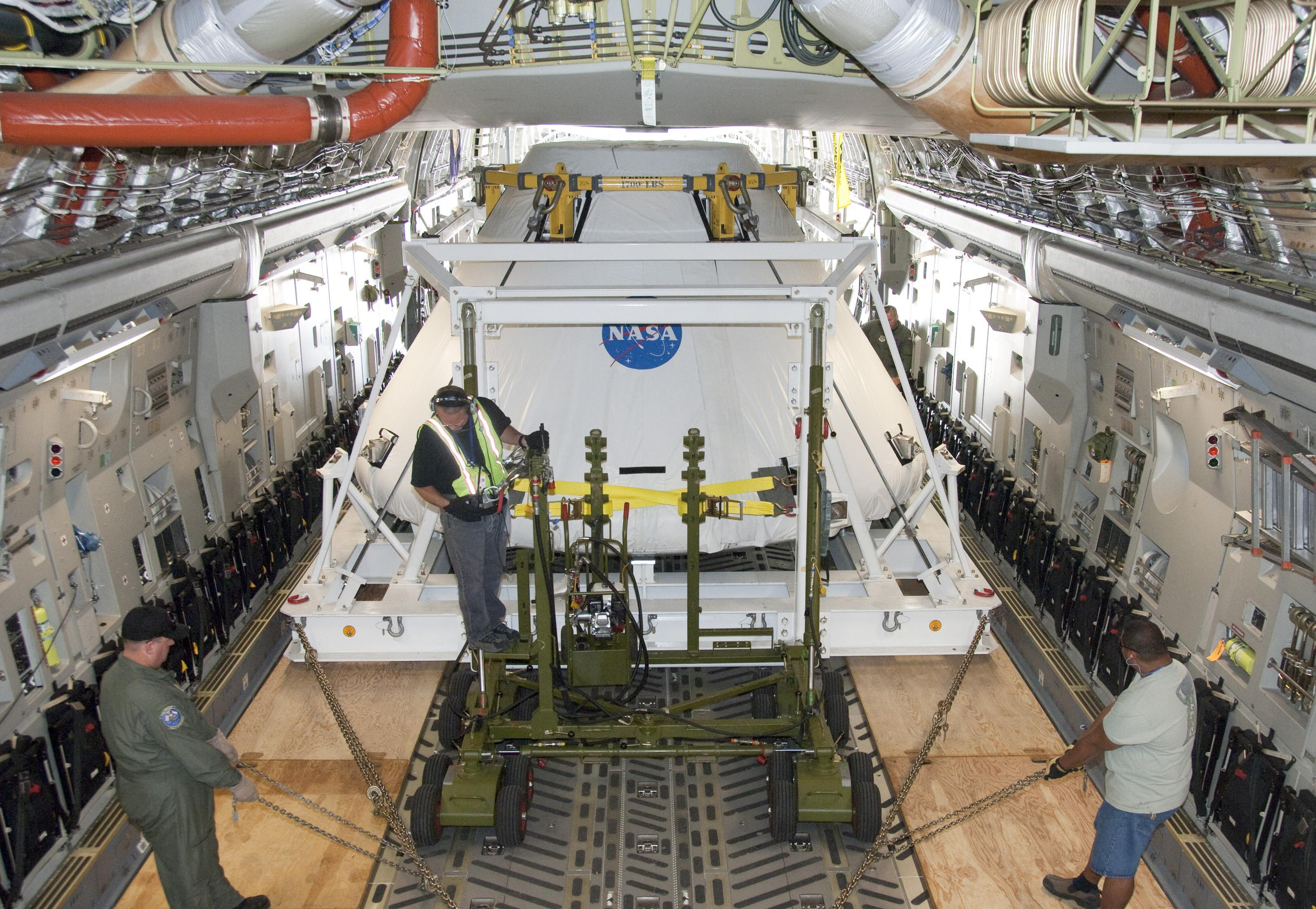 Technicians carefully position an Orion flight test crew module to be airlifted from NASA's Dryden Flight Research Centre to the White Sands Missile Range in New Mexico. The crew module will be used for the Orion Launch Abort System Pad Abort-1 flight test, the first of five planned Orion Launch Abort System Pad flight tests in NASA's Constellation program.